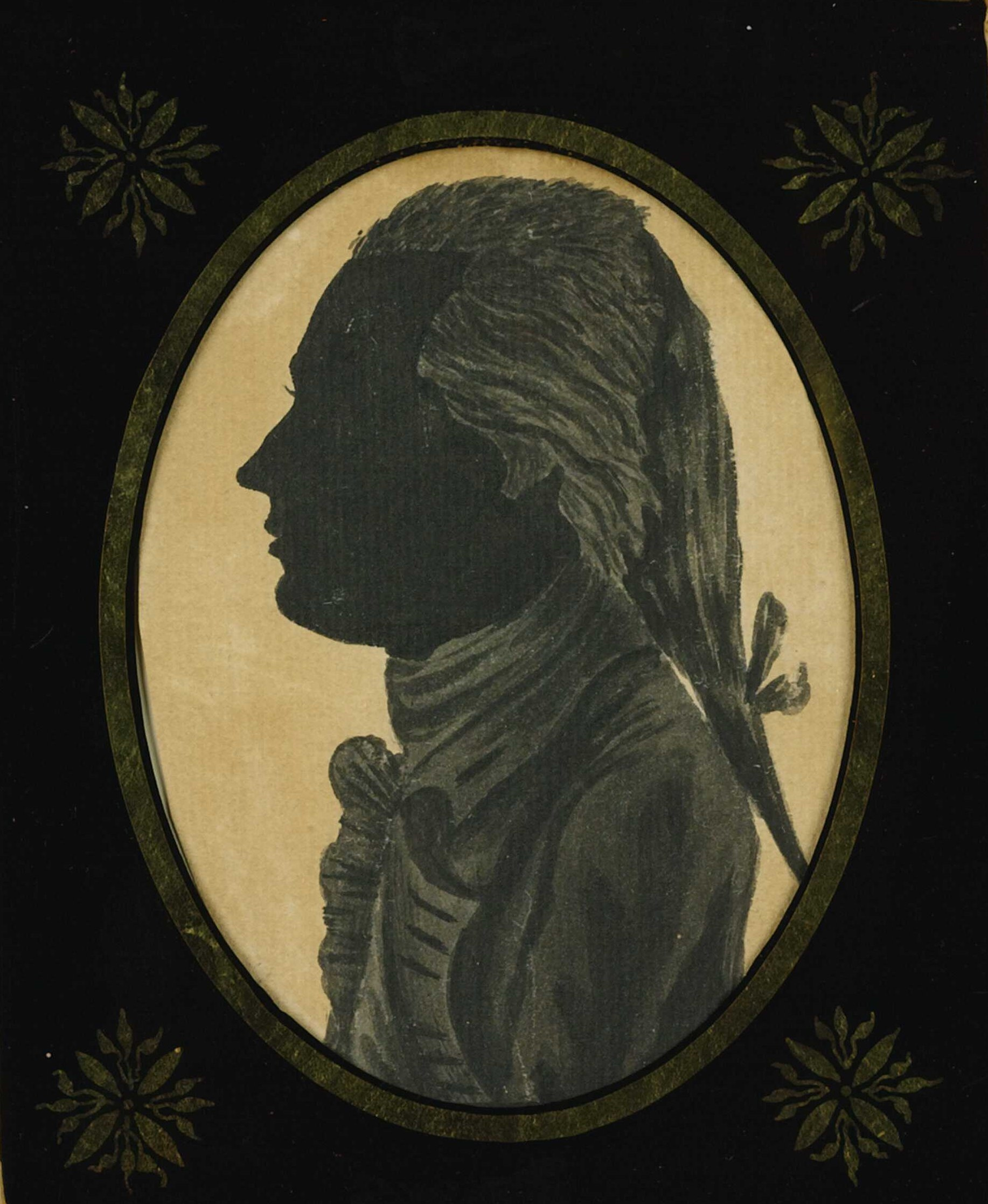 Silhouette of Cuthbert Collingwood drawn by Horatio Nelson when both were serving in the West Indies According to Mrs Mary Moutray, Nelson’s silhouette drawing of Collingwood was prompted by Collingwood’s drawing of Nelson (PAJ3942): ‘When the laughter which created this was over, Captain Nelson said, “And now, Collingwood, in revenge I will draw you in that queue of yours”, and produced in his turn an outline drawing in which he has caught with considerable success the features of his friend.’ Silhouette of Cuthbert Collingwood drawn by Horatio Nelson when both were serving in the West Indies